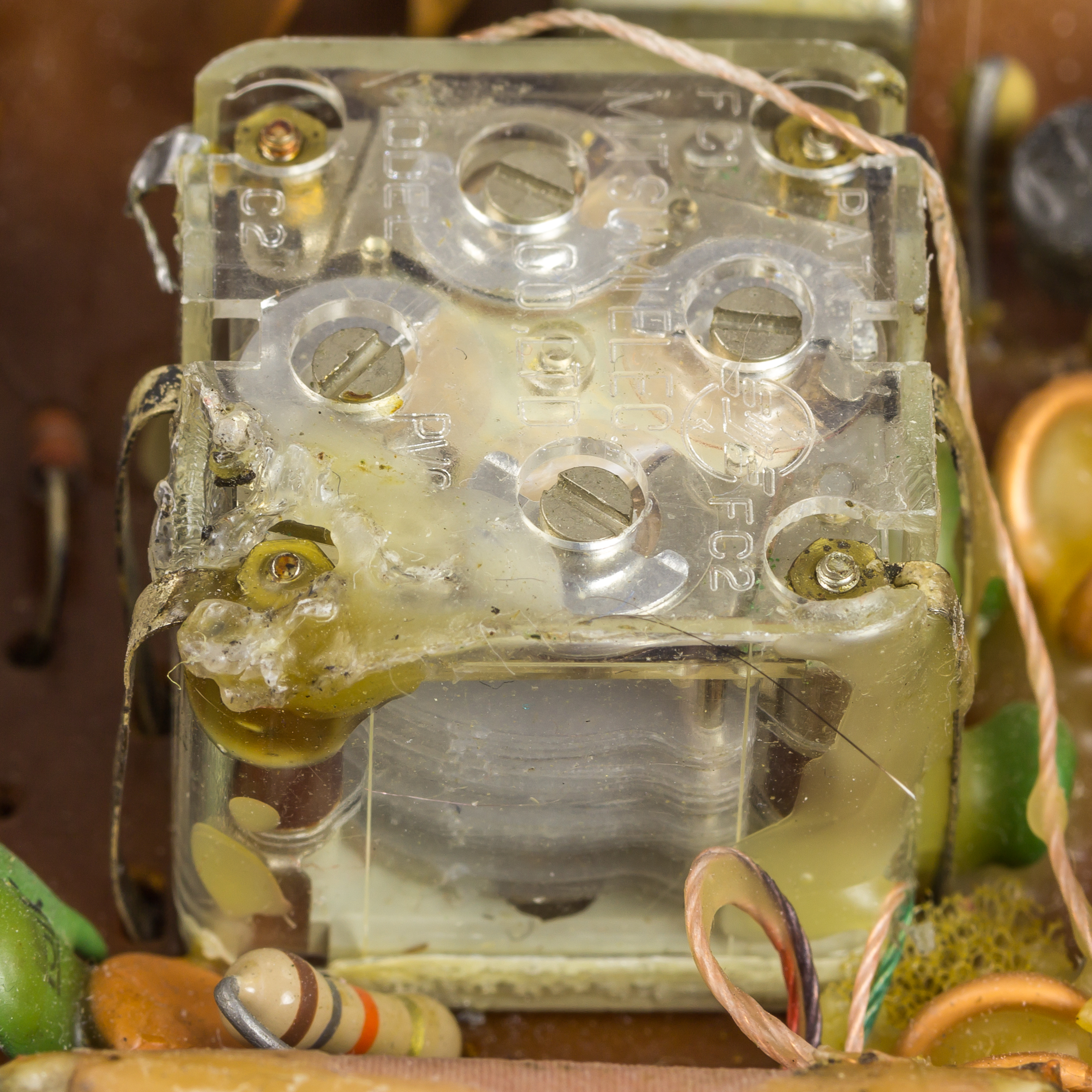 Universum UR 1886 - tuner part - variable capacitor